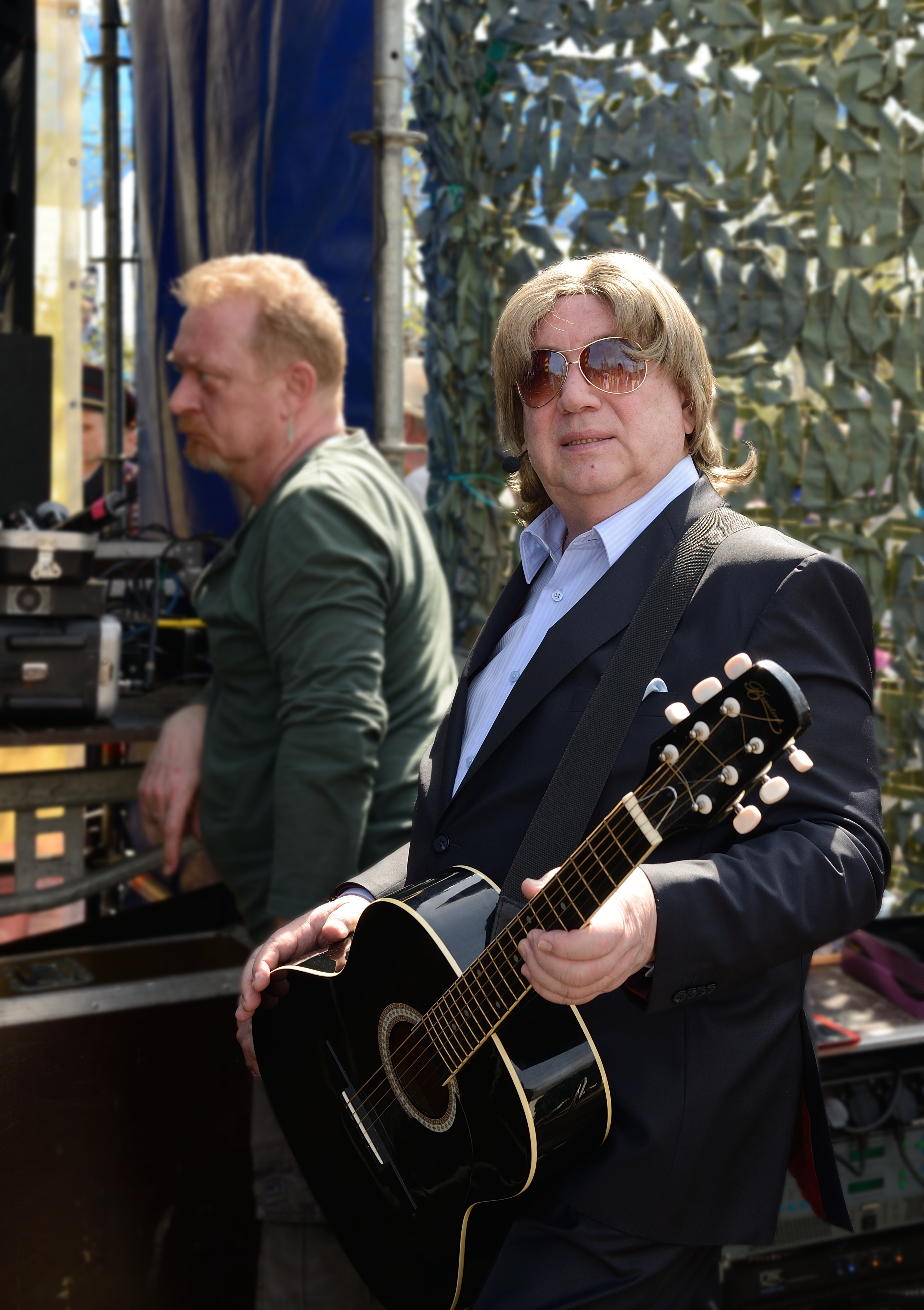 Vinokur Vladimir Natanovich 2 may 2018 before the show (a parody of Yuri Antonov)